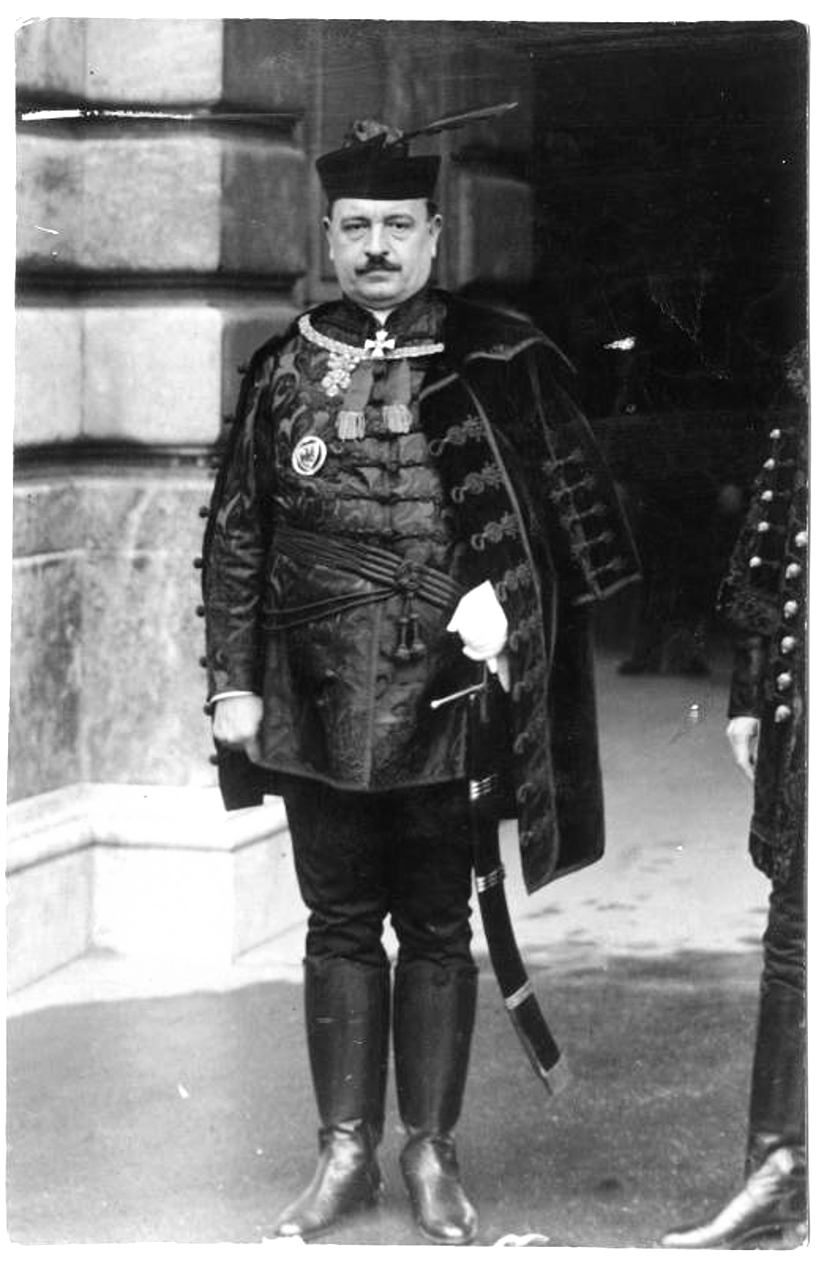 Bálint Hóman (29 December 1885 – 2 June 1951) Hungarian scientist: historian and professor; politician, who served as Minister of Religion and Education twice: between 1932–1938 and between 1939–1942.